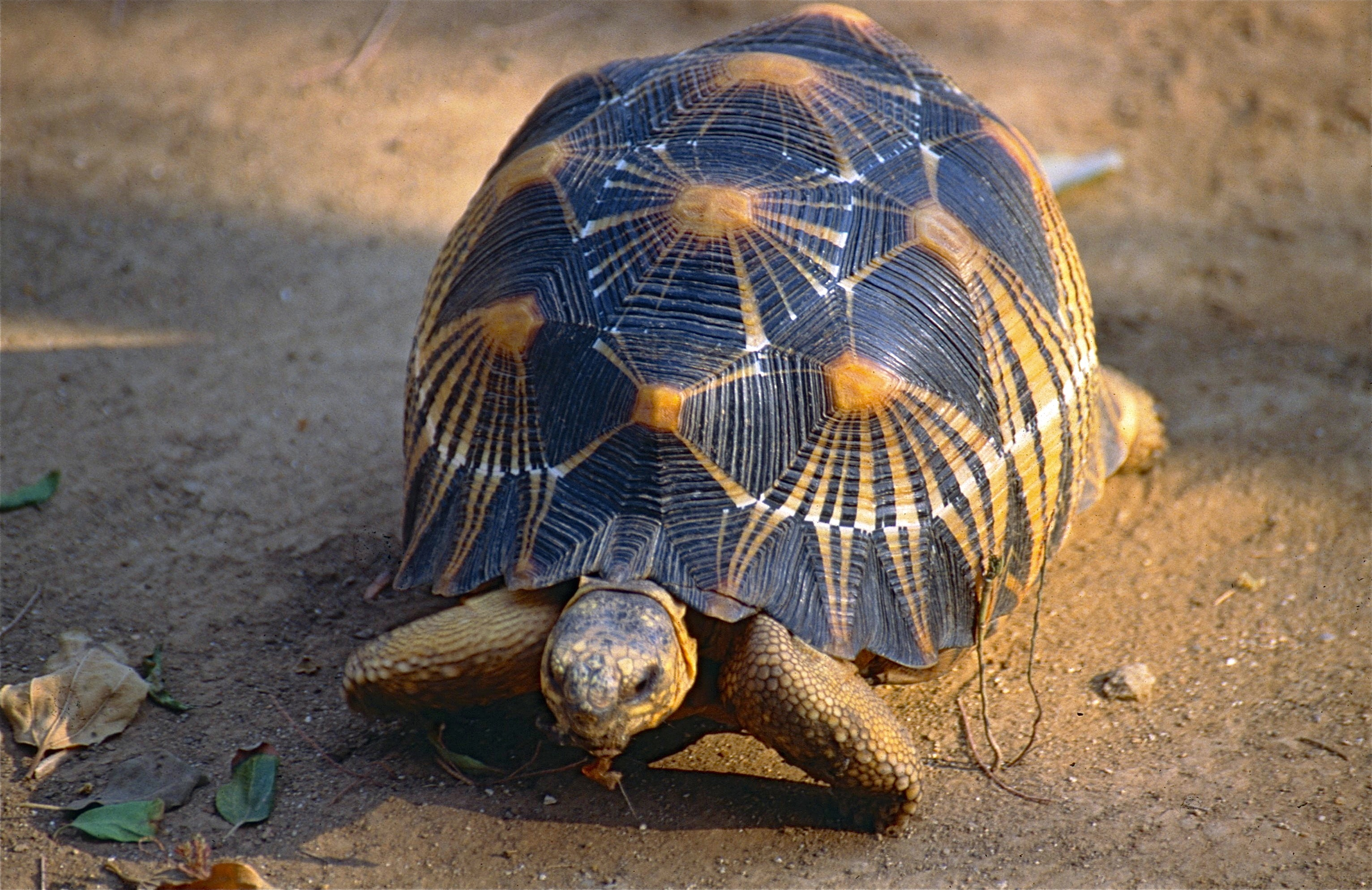 Arboretum d' Antsokay, Toliara, MADAGASCAR Scanned Slide from 1998